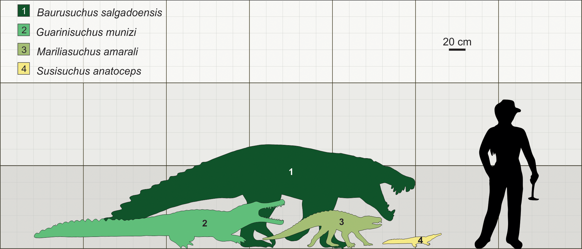 Comparative size of Susisuchus anatoceps to other Brazilian Cretaceous Crocodylomorphs. Comparative size diagram of Brazilian fossil crocodylomorphs, showing the dwarfism of Susisuchus anatoceps with 70 cm of maximum length. Ilustration by Aline M. Ghilard.